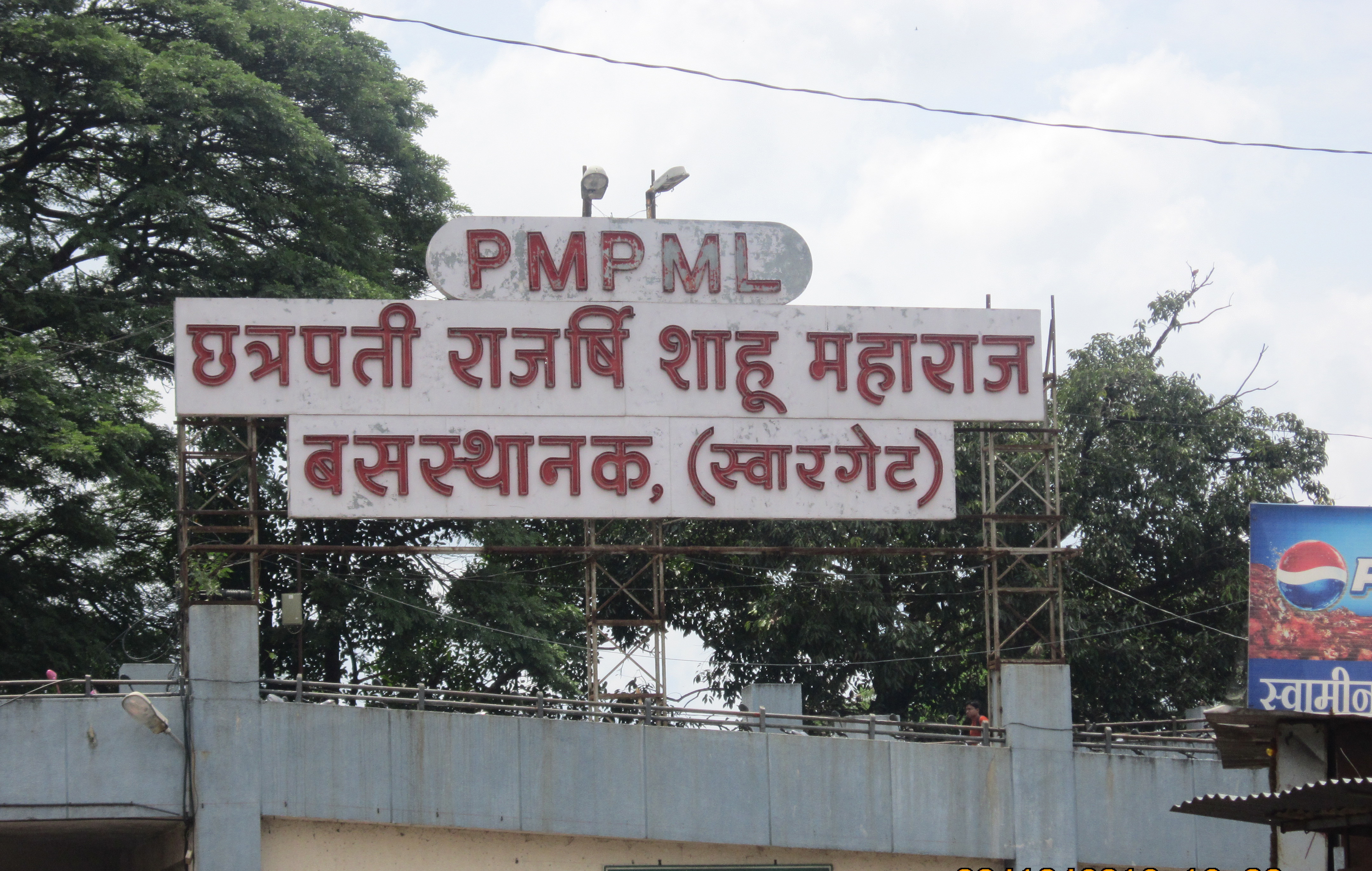 Swargate busstand